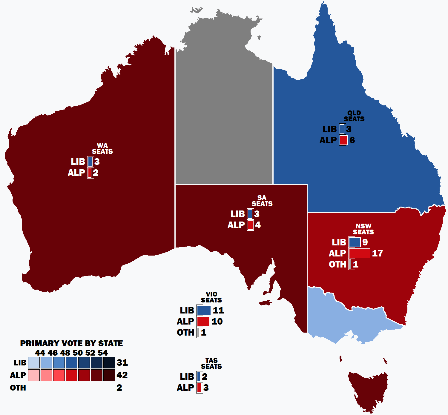 Result of the primary vote by state in the 1910 Australian federal election.